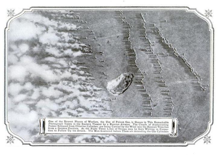 Aerial photograph of a gas attack launched by the Germans against the Russians circa 1916